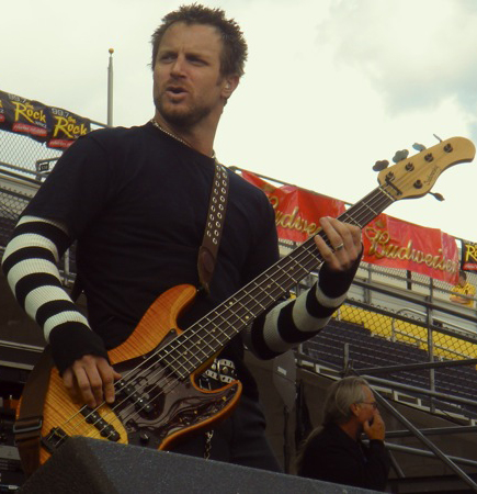 Bassist from Creed and Alter Bridge